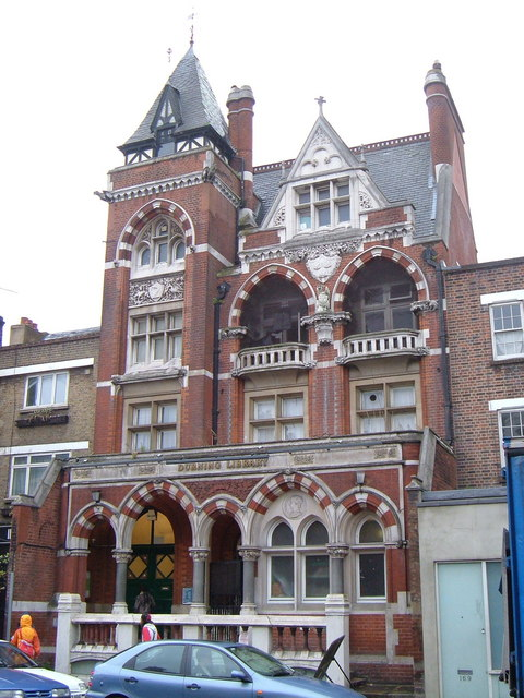 Durning Library, Kennington. Housed in a flamboyant Victorian building on Kennington Lane.